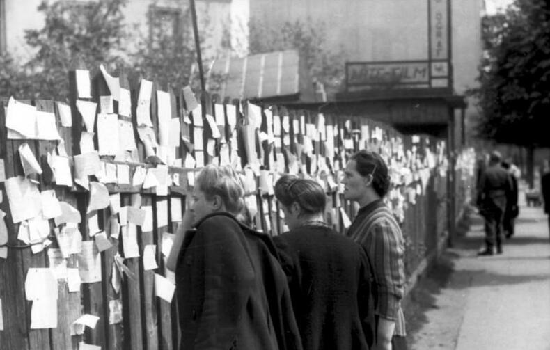 Warsaw Uprising: After evacuation from Warsaw women are seeking information about families in Pruszków near Warsaw.